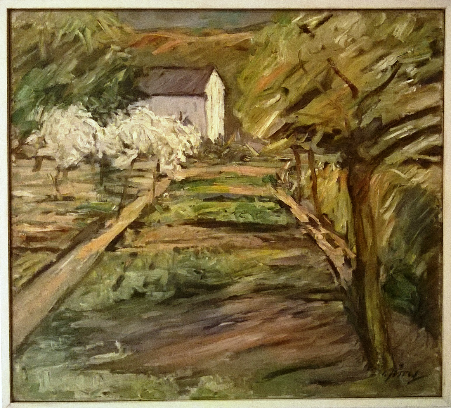 Carl Jörres, Garten vor einem weißen Haus um 1920